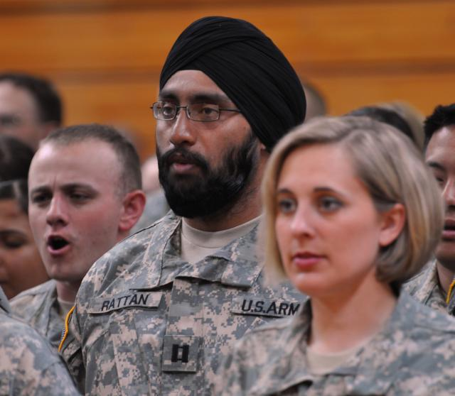 Army Captain Tejdeep Singh Rattan, one of the first Sikh officers in the military since permission was granted to allow beards, long hair, and turbans on active duty. Photo at Officer training, 2010